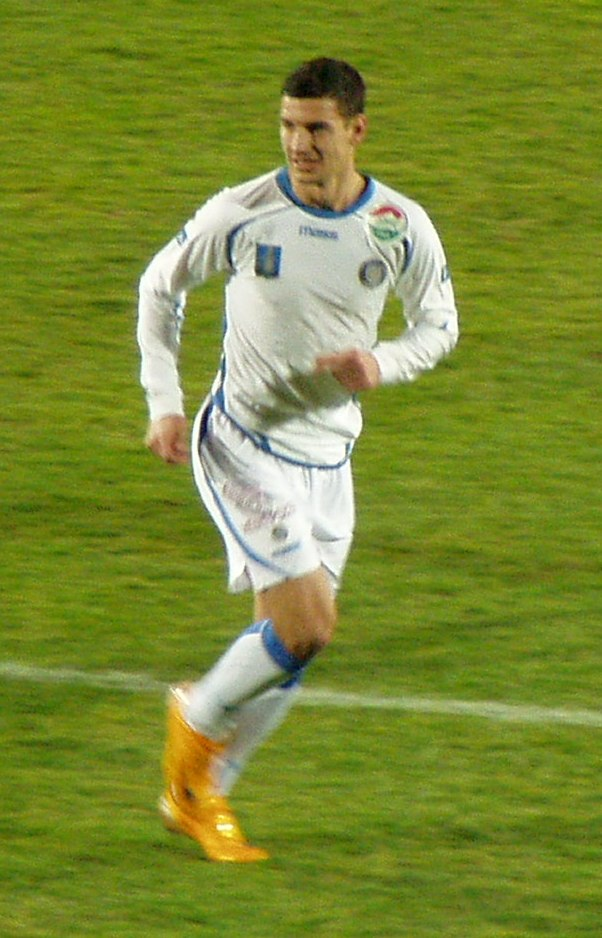 Róbert Waltner